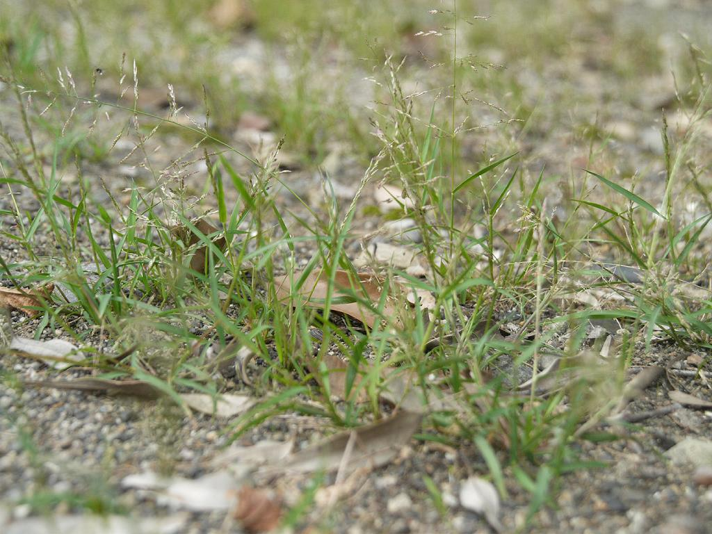 Eragrostis multicaulis(Poaceae)